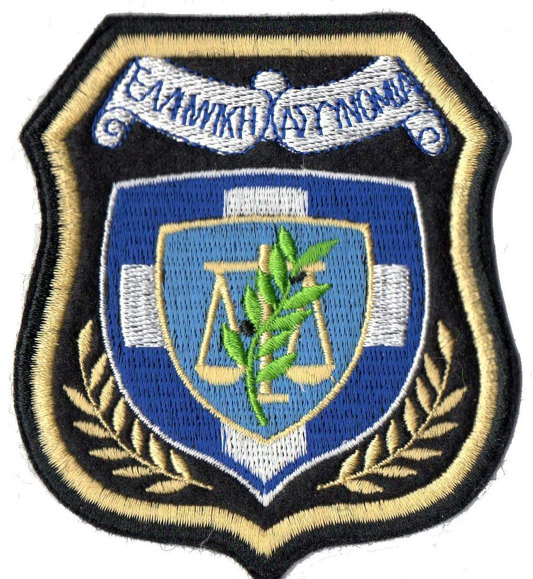 The force was established in 1984 under Law 1481/1-10-1984 (Government Gazette 152 A) as the result of the fusion of the Gendarmerie (Χωροφυλακή, "Chorofylaki") and the City Police (Αστυνομία Πόλεων, "Astynomia Poleon") forces